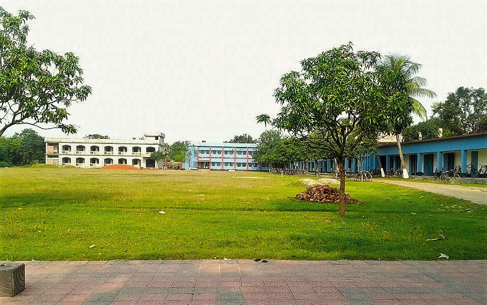 Nachole Degree College is one of the leading college for HSC and degree level education in Nachole.